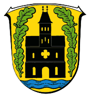 Coat of Arms of Guxhagen